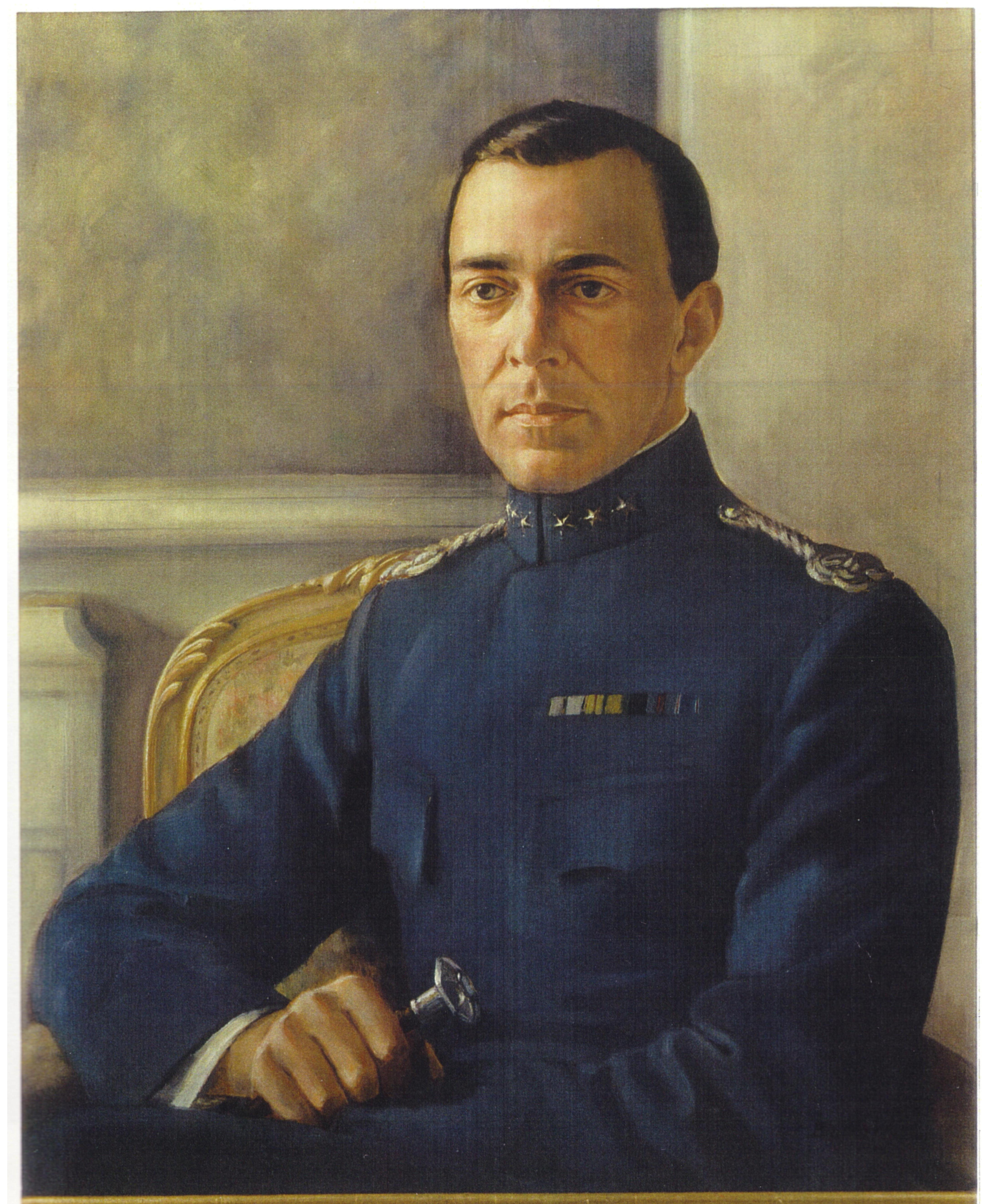 Portrait of the Swedish Prince, Gustaf Adolf, in 1939label QS:Lsv,"Porträtt av den svenske arvprinsen, Prins Gustaf Adolf, 1939" label QS:Len,"Portrait of the Swedish Prince, Gustaf Adolf, in 1939"